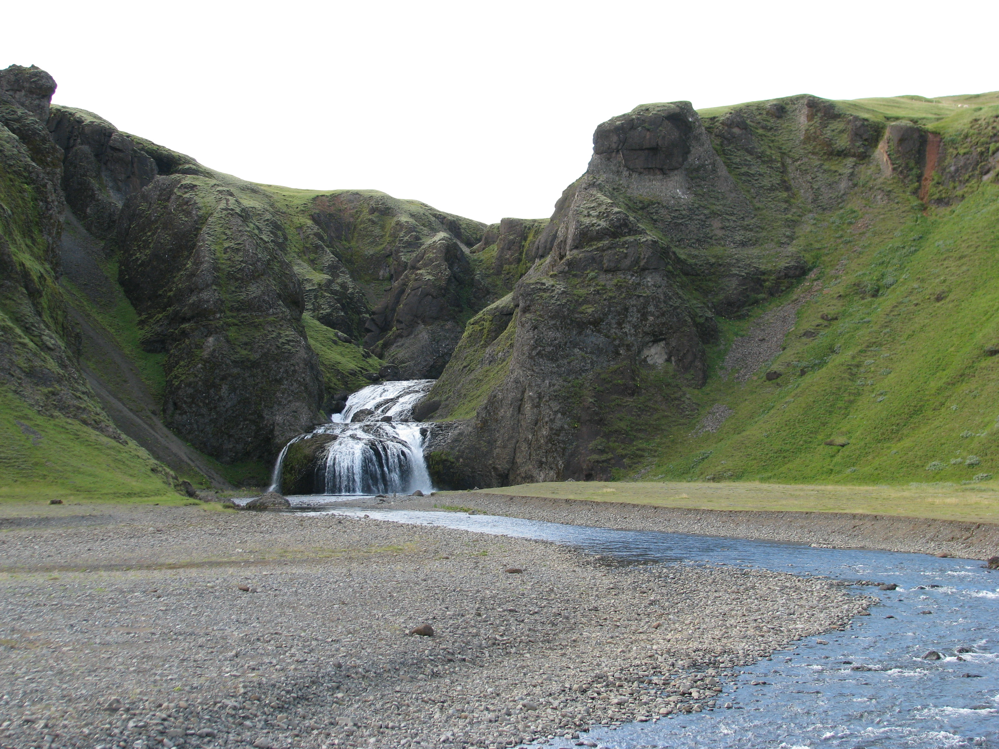 The Stjórnarfoss, a waterfall in South Iceland.